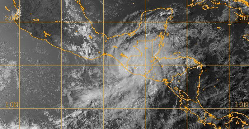 Tropical Storm Agatha at 1000mb on May 29, 2010 making landfall near the Mexico-Guatemala border.